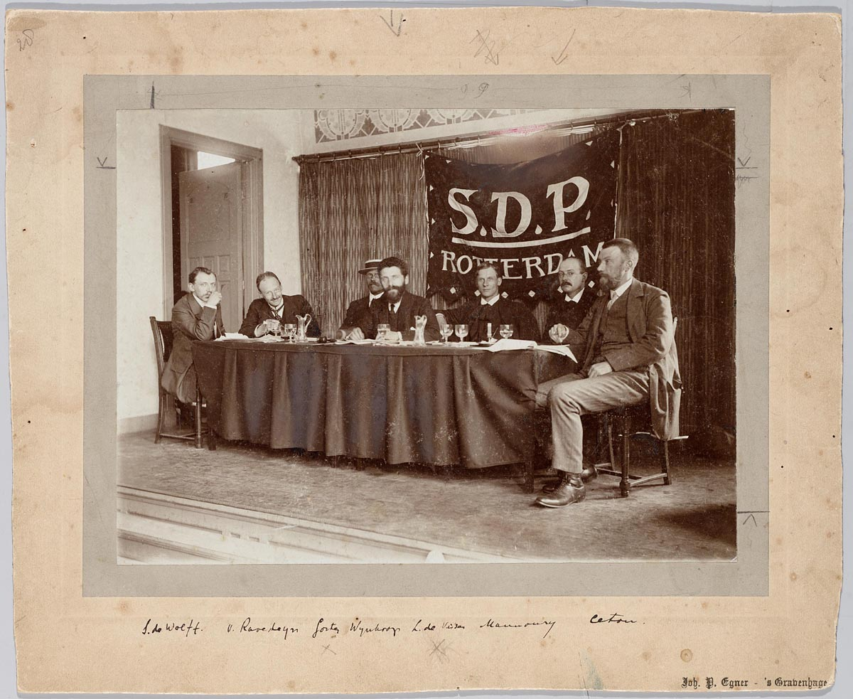 Group photograph of the SDP, Department Rotterdam, Congress, 1911, with Sam de Wolff, Willem van Ravesteyn, Herman Gorter, David Jozef Wijnkoop, Louis de Visser, Gerrit Mannoury and Jan Ceton